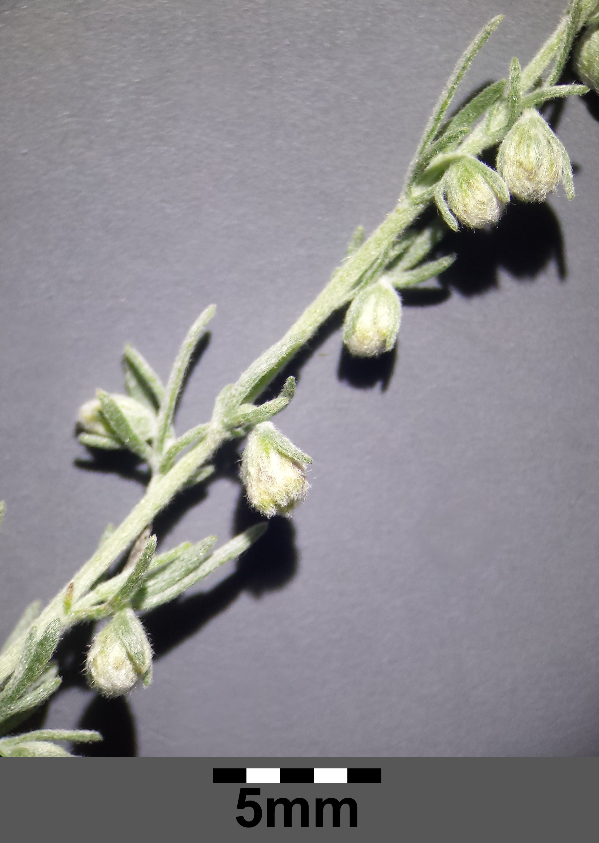 Inflorescence Taxonym: Artemisia repens (ss Fischer et al. EfÖLS 2008 ISBN 978-3-85474-187-9) Location: abandoned marshalling-yard Breitenlee, Vienna-Donaustadt - ca. 160 m a.s.l. Habitat: ballast/dry grassland